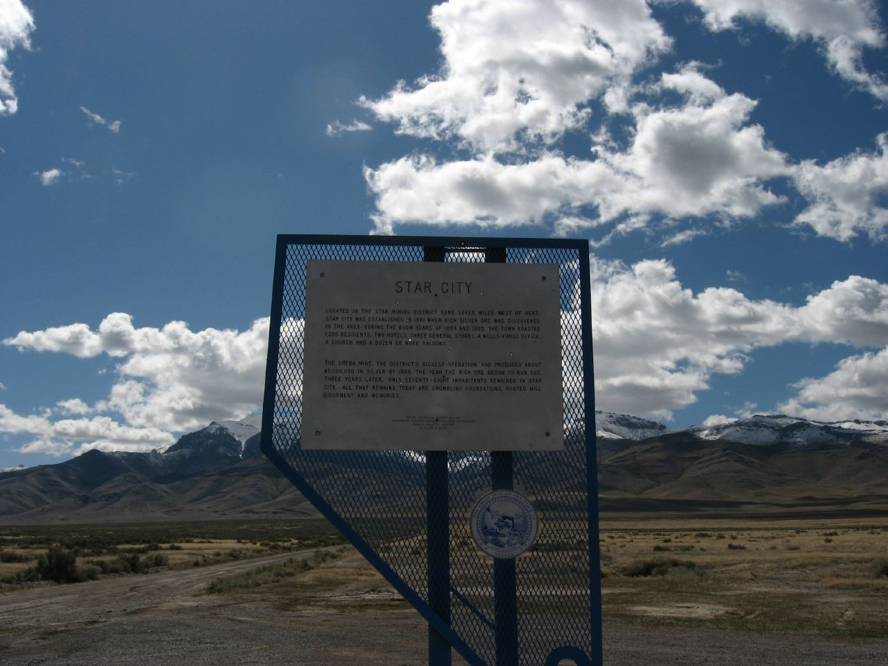 Star City Historical Sign, S.R. 400